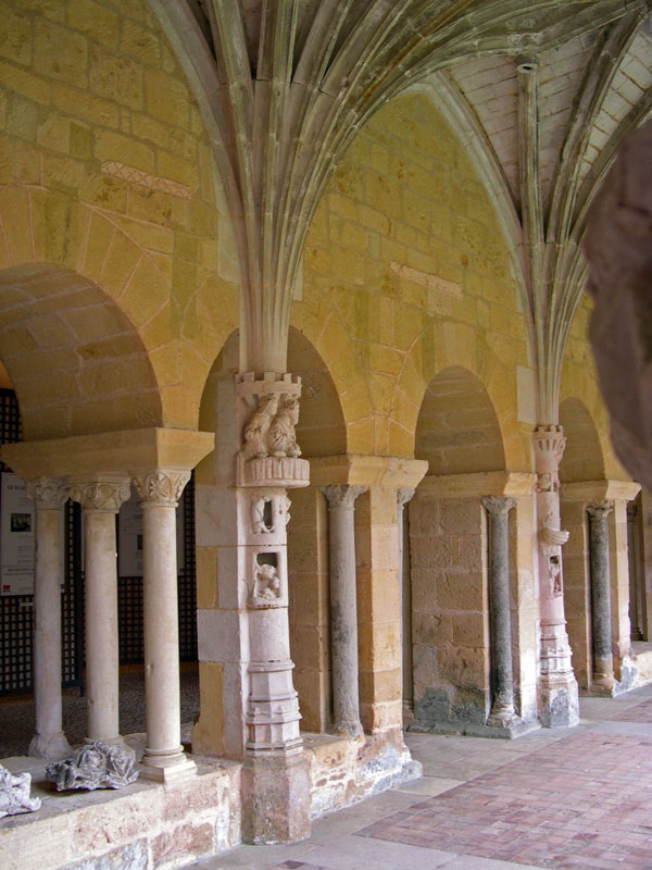 Cadouin Abbey. France